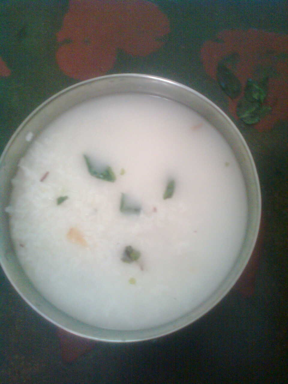 Pakhala is an Odia term for an Indian food consisting of cooked rice washed or little fermented in water. This media file is uploaded with Odia loves Wikipedia English |italiano |македонски |മലയാളം |ଓଡ଼ିଆ +/− This image was selected as Picture of the day on the Odia Wikipedia for 2011-07-30.